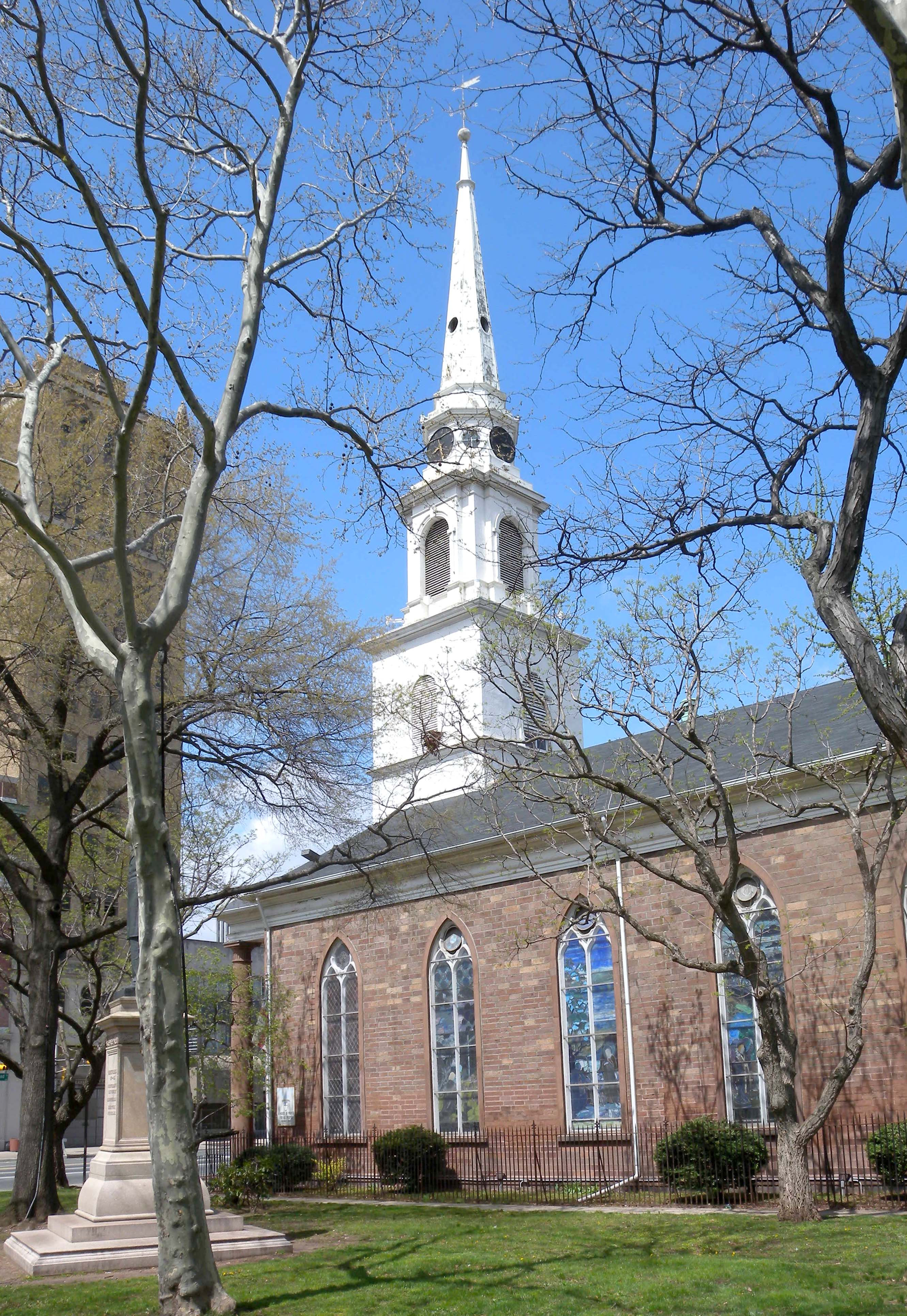 Looking northwest at Trinity & St. Phillip's Episcopal Cathedral in Newark on a sunny midday.}